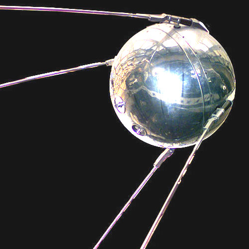 from sputnik asm, cropped and brightened for ubx use